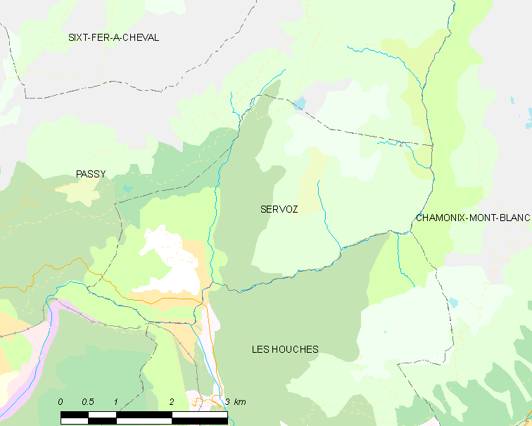 Map of French municipality Servoz